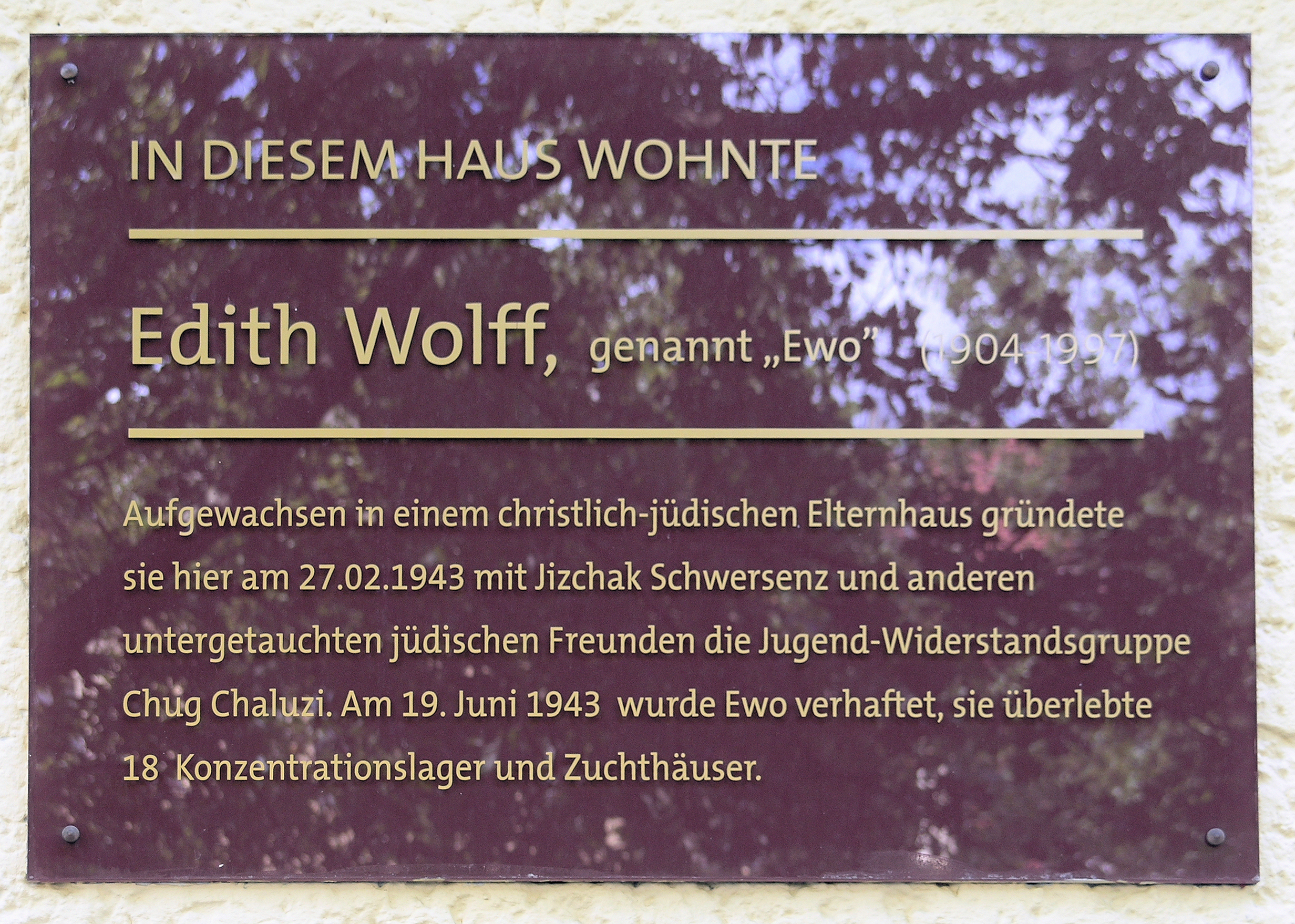 Memorial plaque, Edith Wolff, Bundesallee 79, Berlin-Friedenau, Germany Koordinate:52°28′12.4″N 13°19′41.6″E / 52.470111°N 13.328222°E